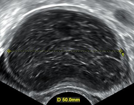 A hemorrhagic ovarian cyst found as an incidentaloma in a 42-year old woman with no pain in this particular region. Presumably, it is caused by bleeding in a corpus luteum cyst. The coagulating blood gives the content a spider web-like appearance.